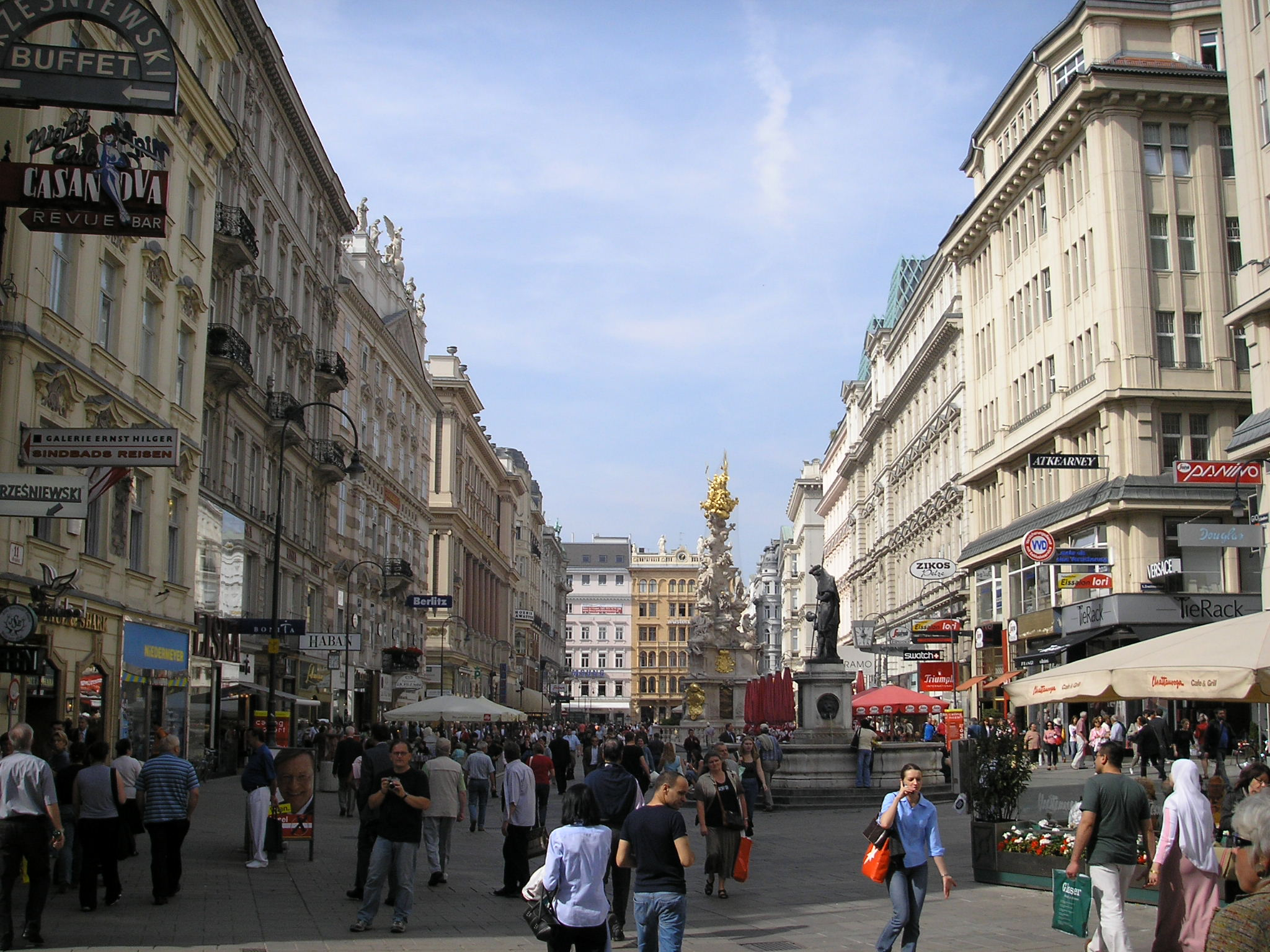 Image of the Graben street in Vienna's first district Innere Stadt.